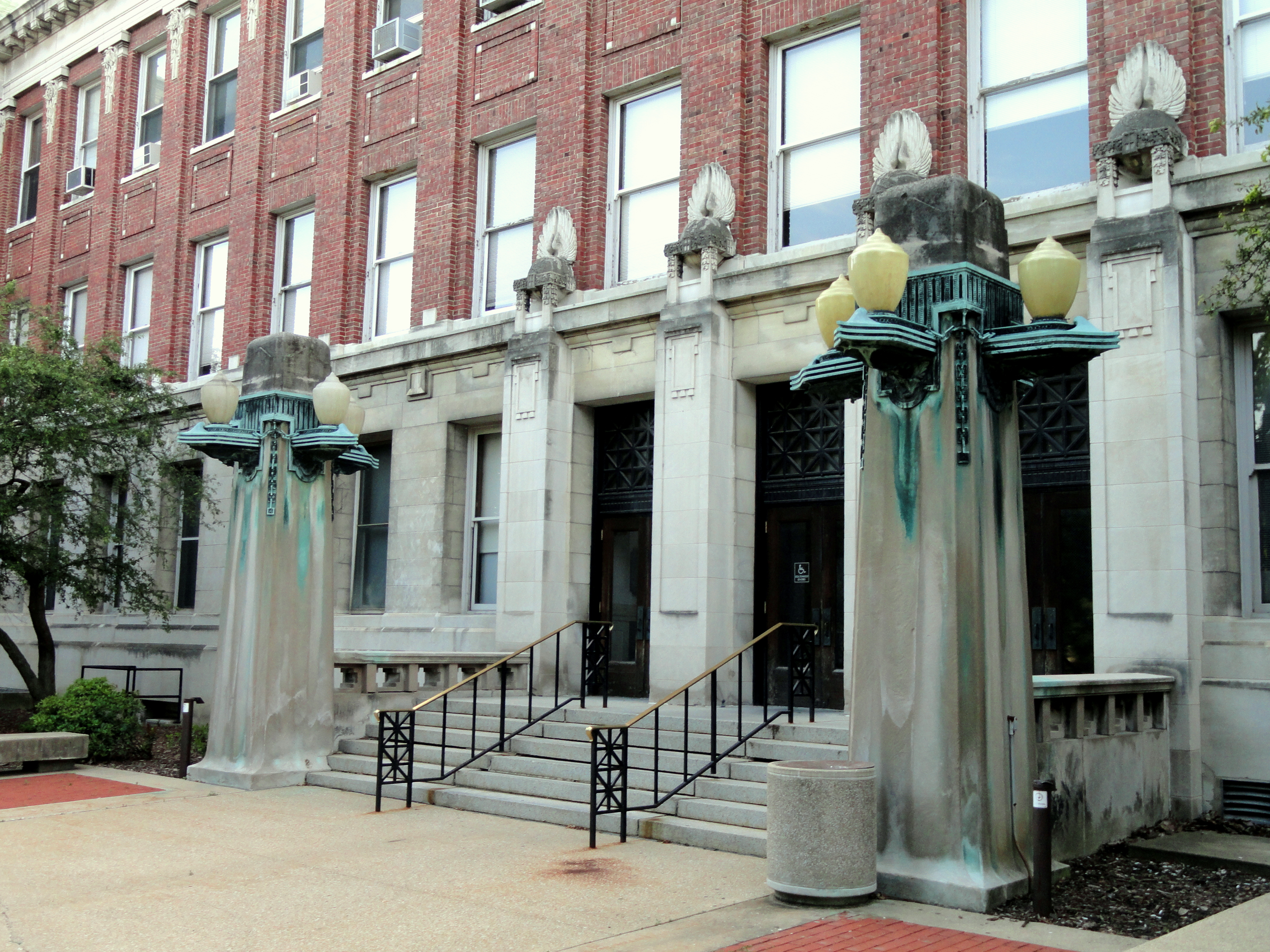 Building on the campus of the University of Illinois at Urbana-Champaign (UIUC), Urbana-Champaign, Illinois, USA.